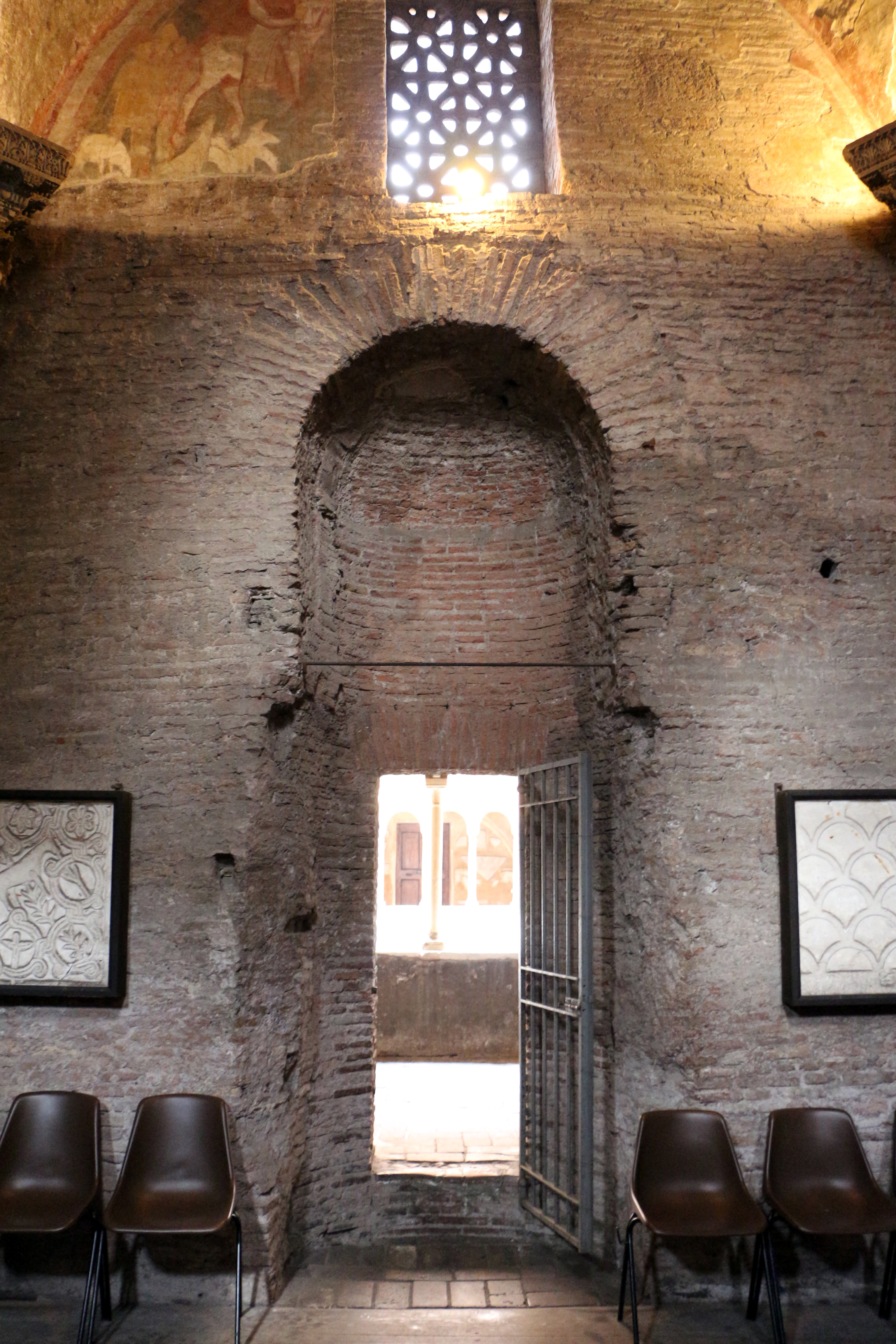 Santi Quattro Coronati (Rome) - Cloister